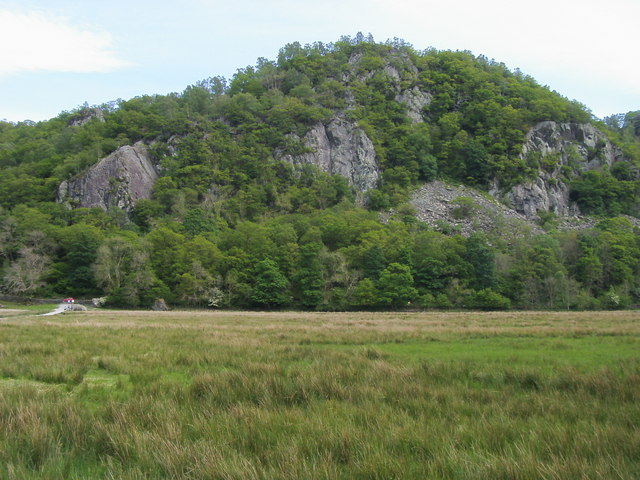 Shepherds Crag From the Cannon Dub path looking to Shepherds Crag